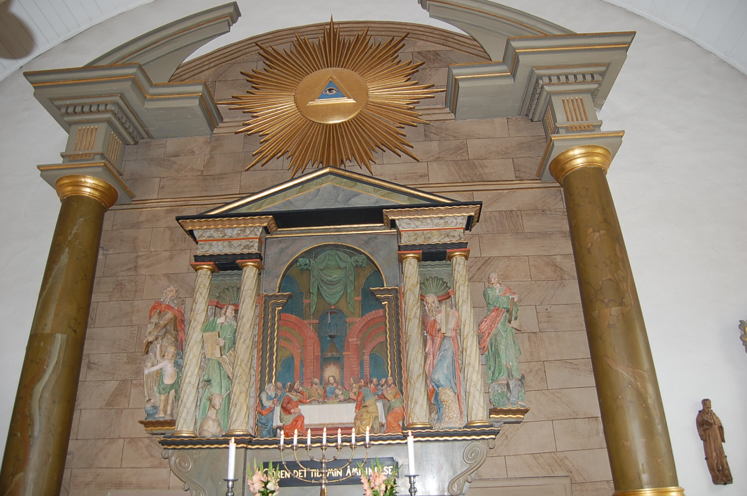 The altar of the church in Gammalstorp, County of Sölvesborg. The wood sculpture to the right is from 15th century.